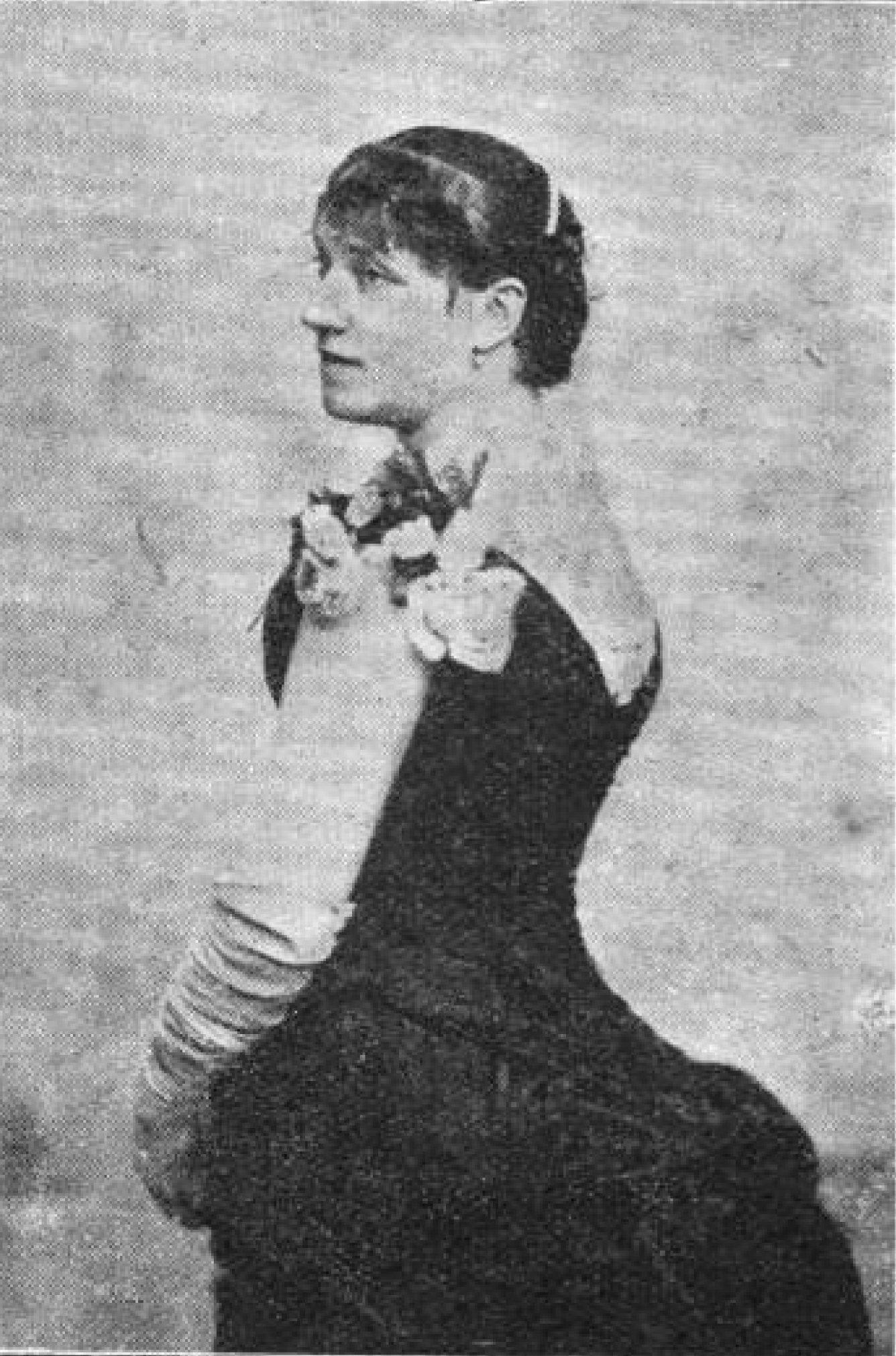 Photograph of Amiati (1851-1889), a French singer in Mémoires d'Ouvrad, version numérique par Paul Dubbé